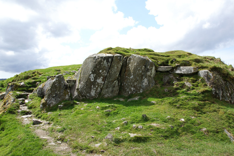 Dunadd Fort, Kilmartin Glen, Scotland - highest level